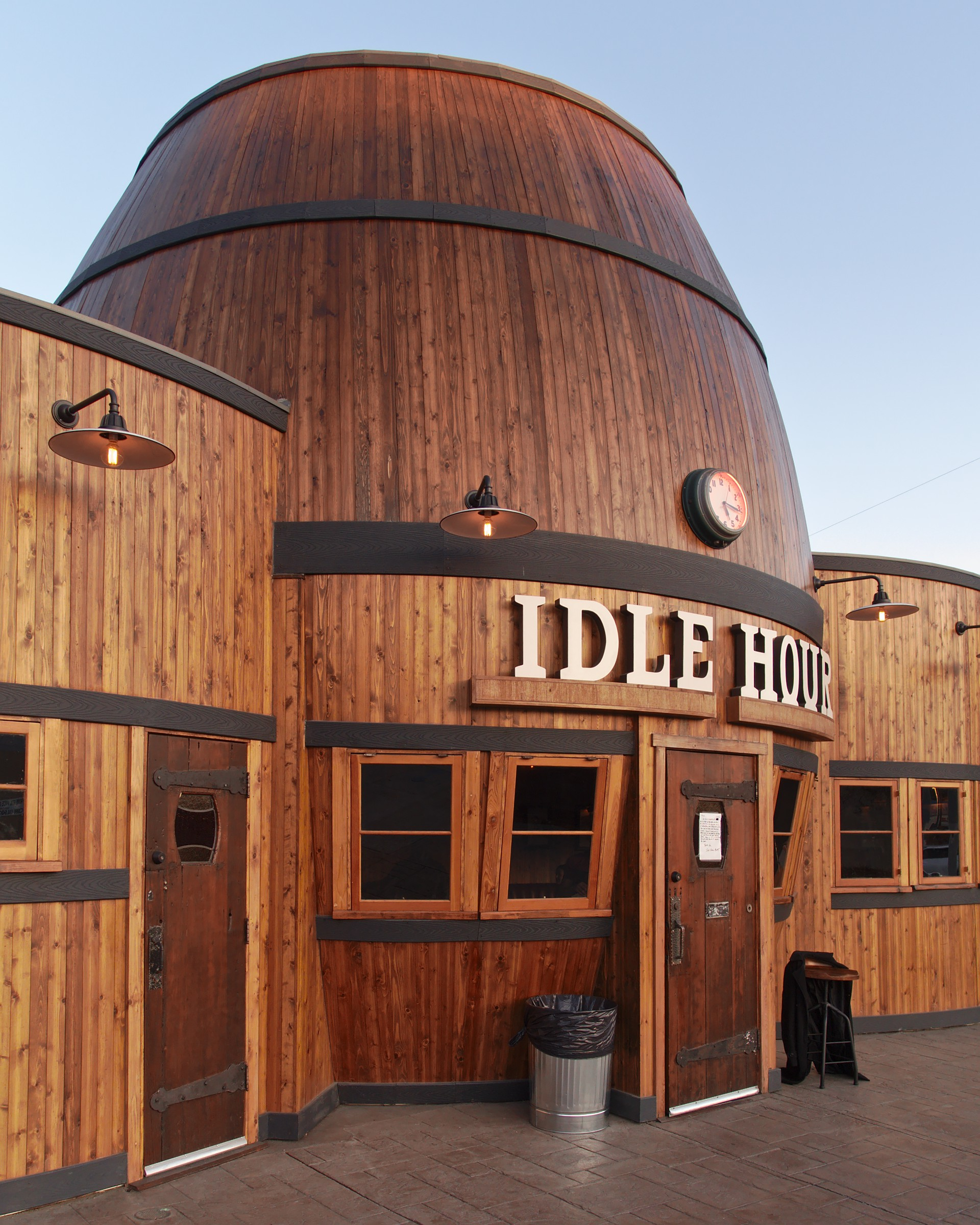 The newly restored Idle Hour Cafe in North Hollywood.